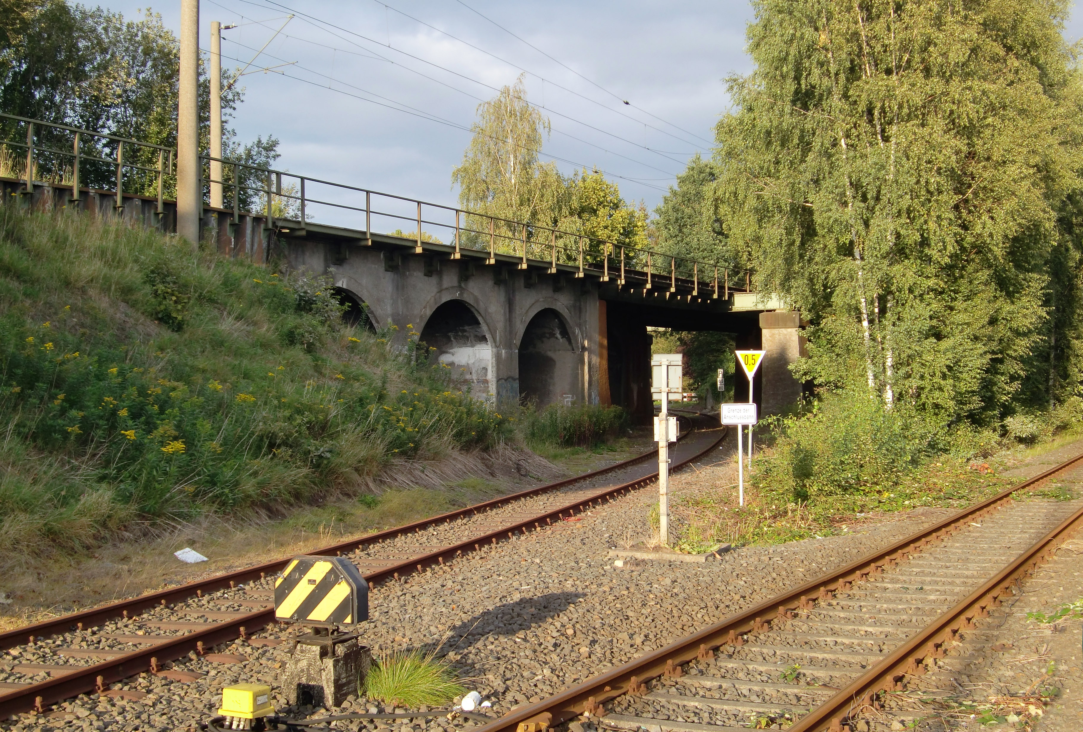 Railway line in Delmenhorst to Lemwerder